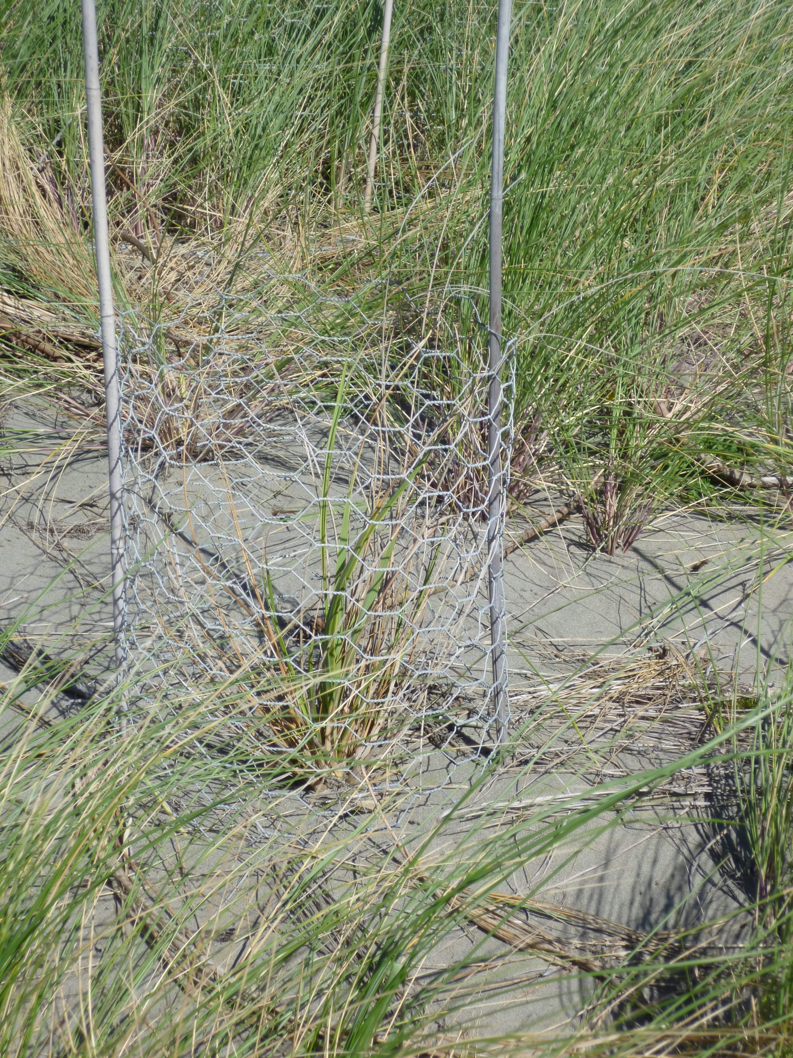 Chicken wire used to protect and help seedlings grow